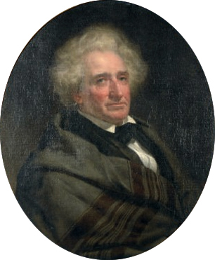 Portrait of Thomas Loraine McKenney